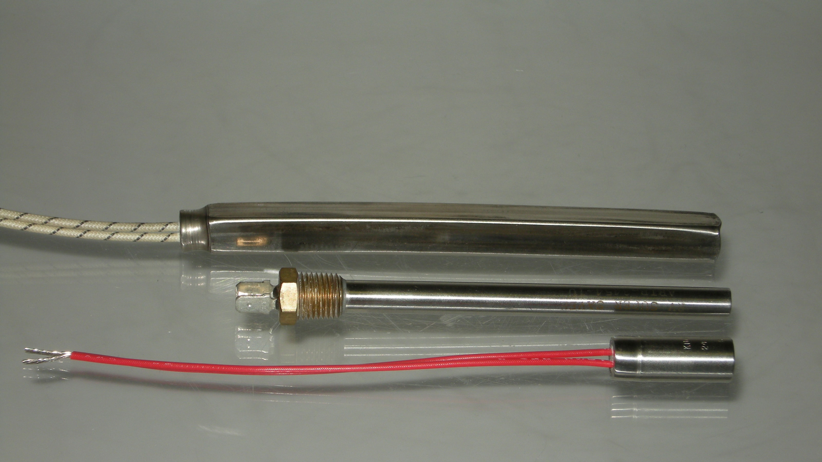 Types of Cartridge Heaters